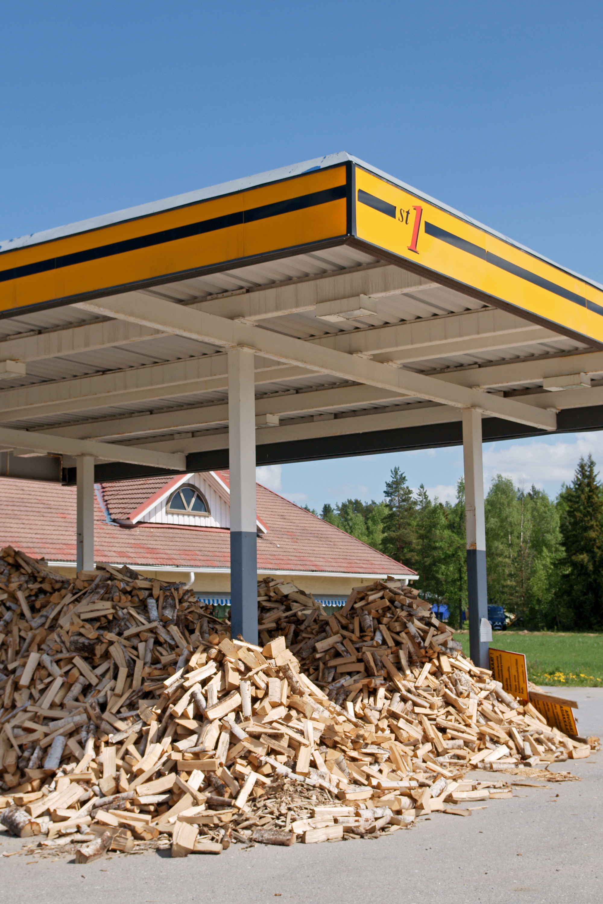 Old petrol station selling firewood.